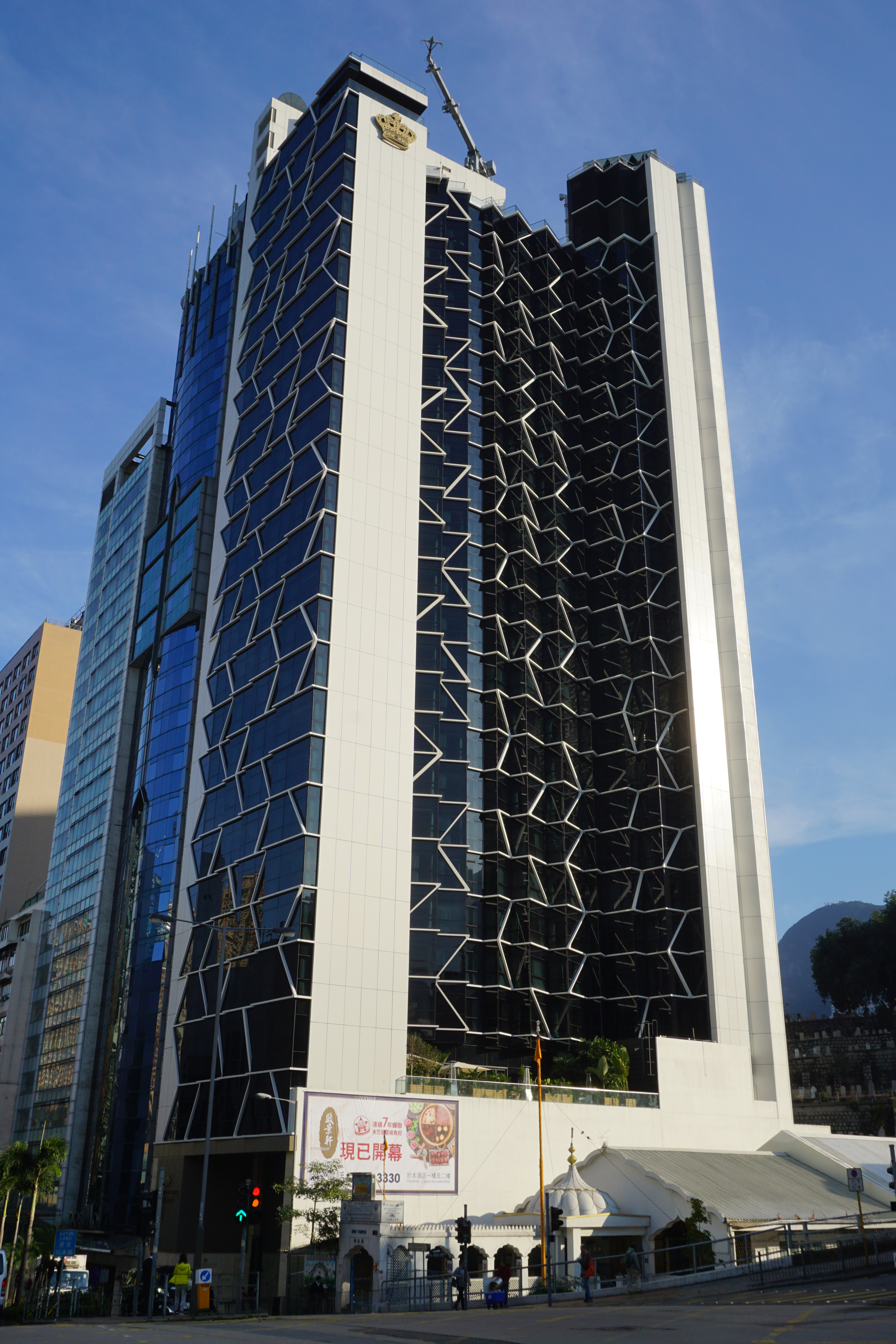 The Emperor Hotel in Wan Chai, Hong Kong.